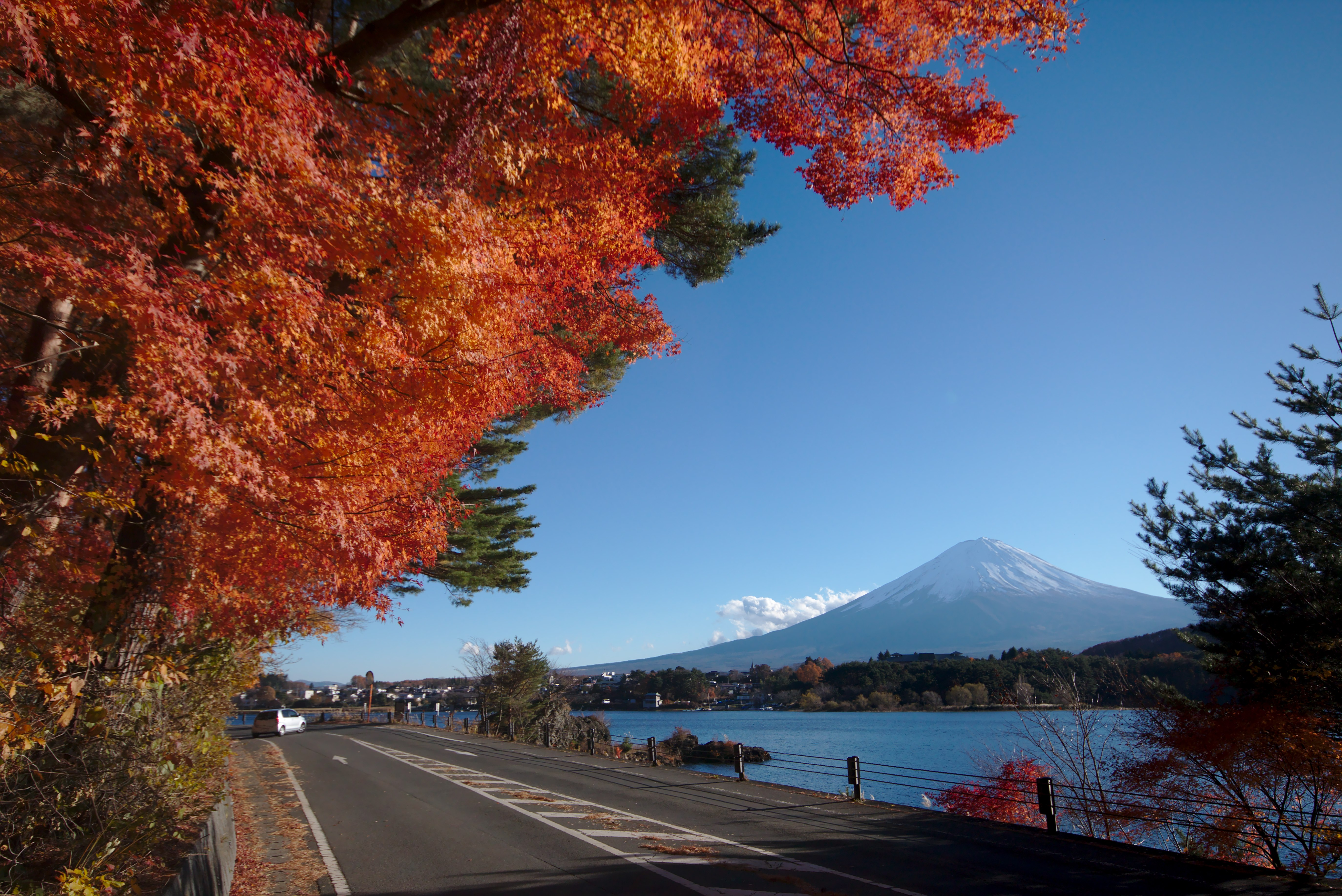 Momiji tunnel and view on the mount Fuji near Lake Kawaguchi, Japan